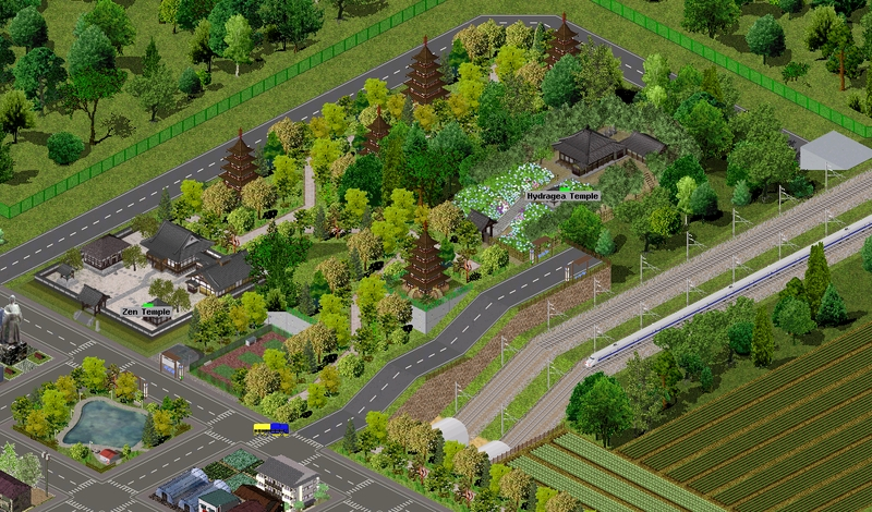 Simutrans pak128 japan